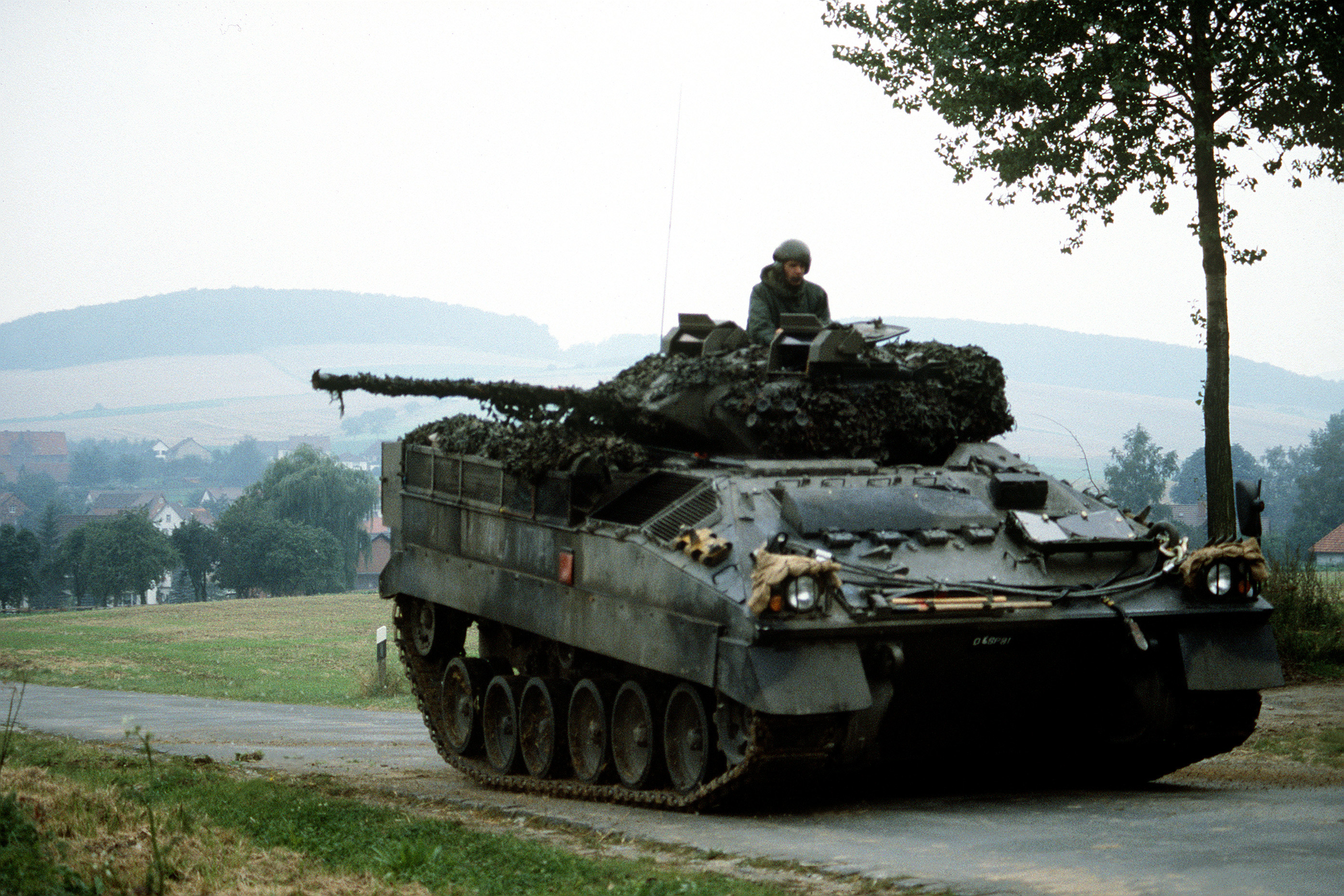 A United Kingdom MCV-80 Infantry Combat Vehicle with camouflaged turret moves along a road during Exercise Reforger '85.